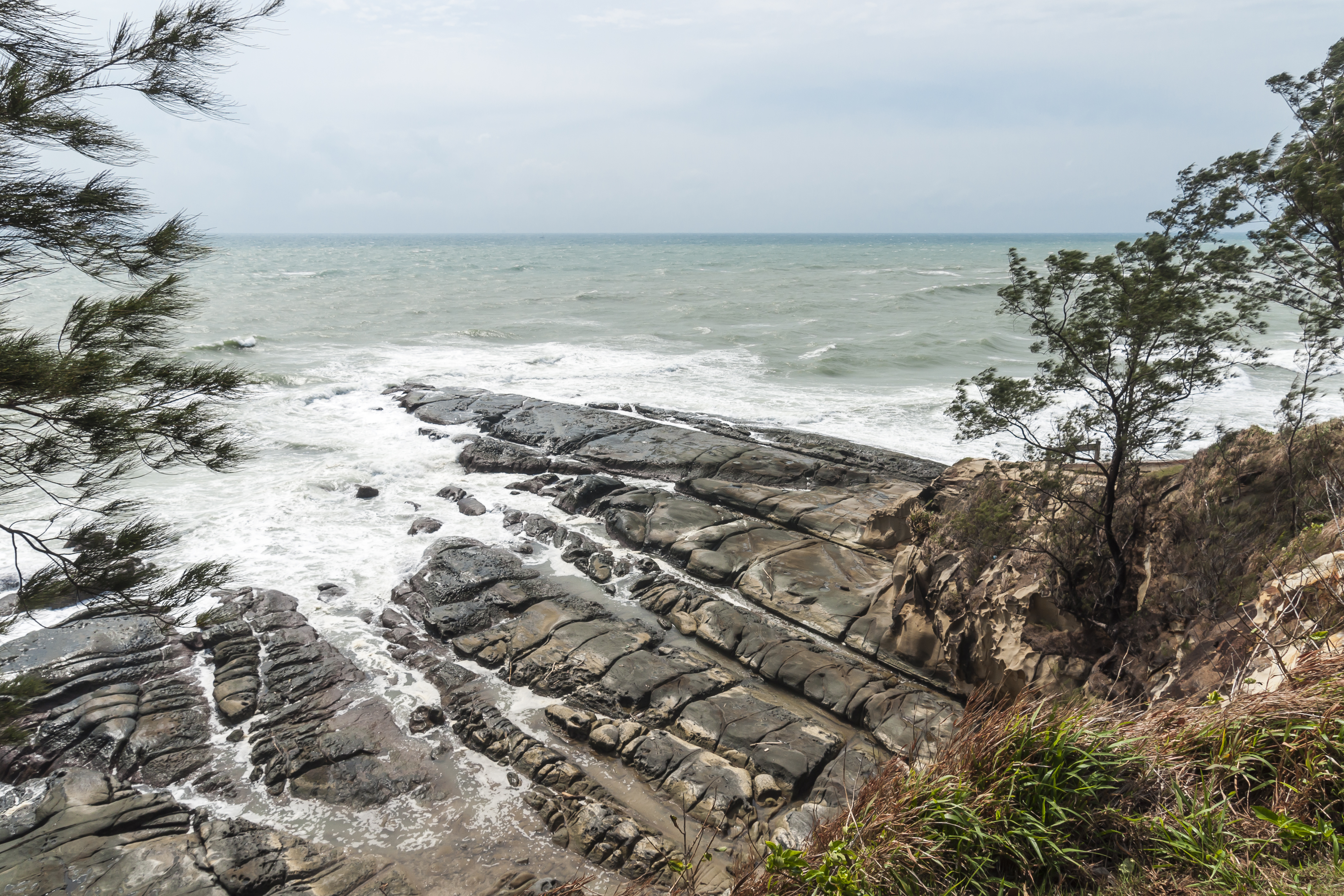 Kudat, Sabah: Tanjung Simpang Mengayau (Tip of Borneo)